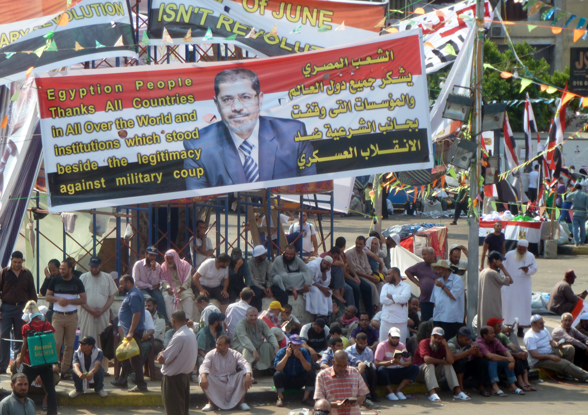 Original description: "Pro-Morsi supporters in Muslim Brotherhood rallying point outside Rabaa al-Adawiya mosque in Cairo, July 11. Photo: VOA/Sharon Behn"